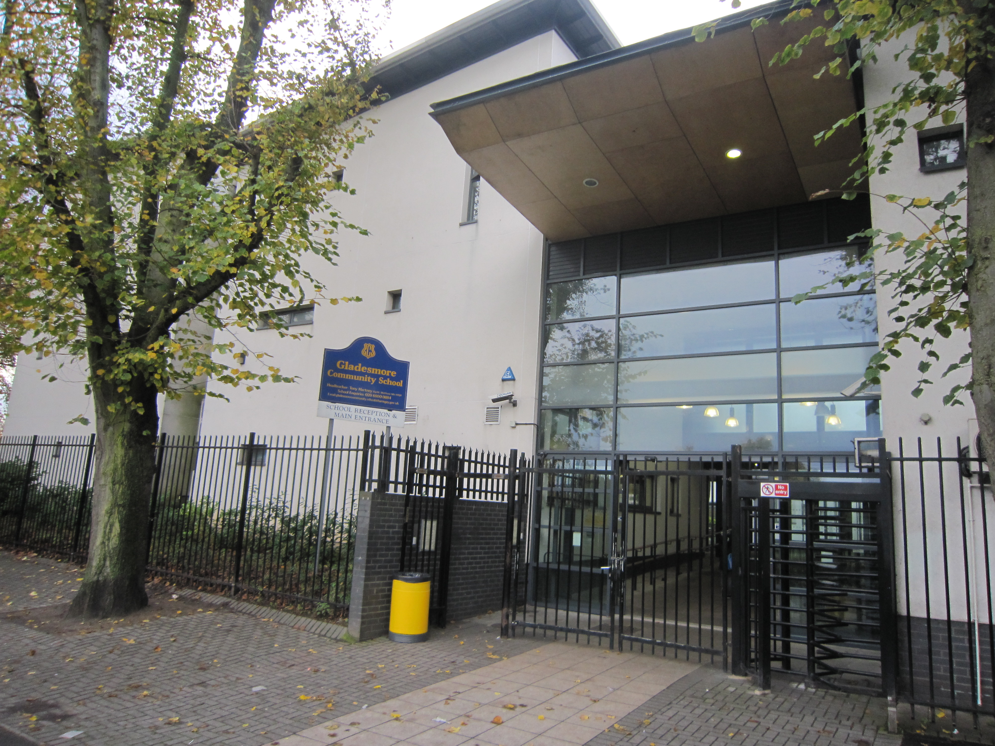 Photograph of Gladesmore Community School in Tottenham, London, UK.